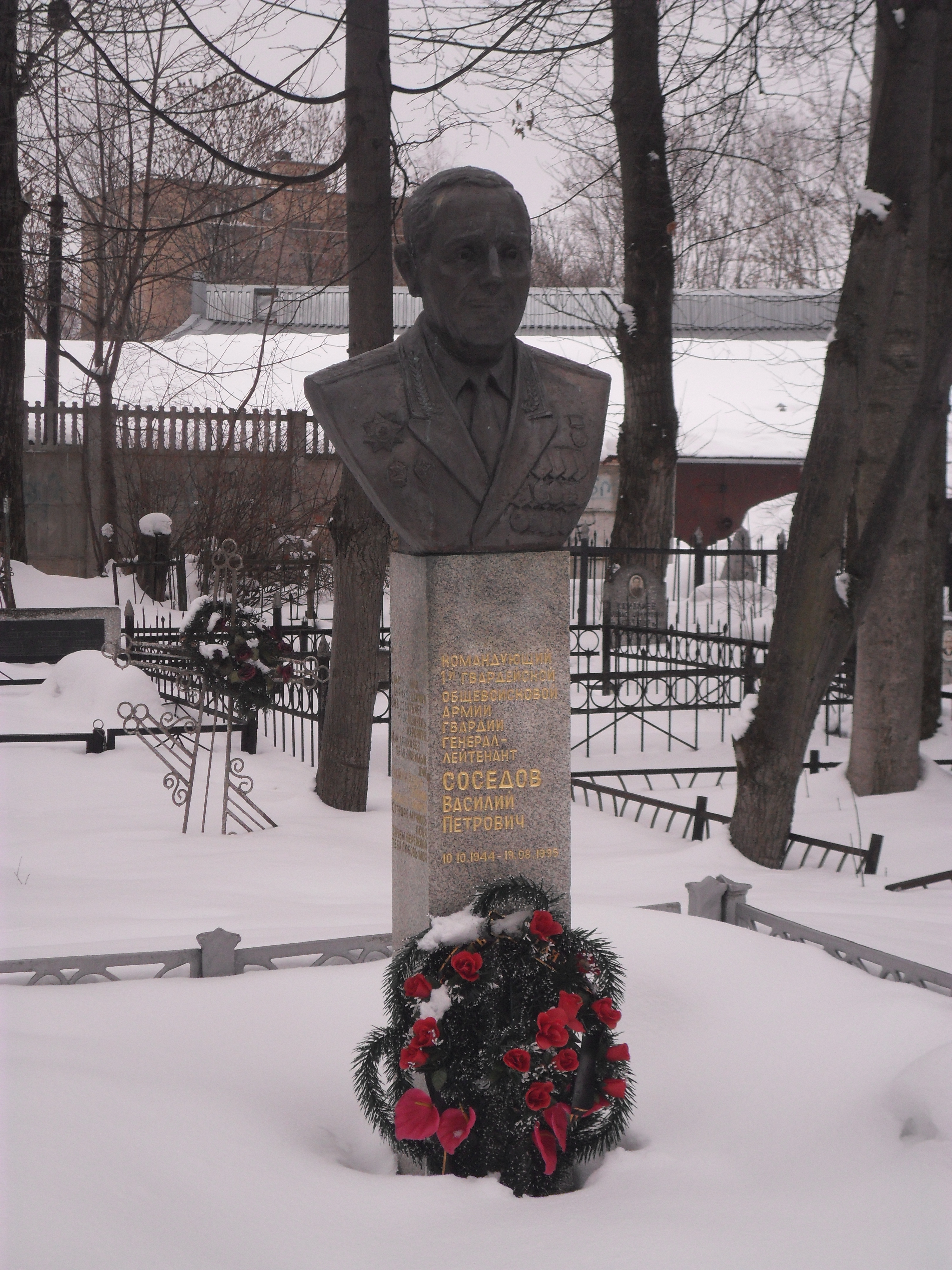 The bust on the grave of Lieutenant-General Vasily Sosedov at the Fraternal Cemetery in Smolensk.